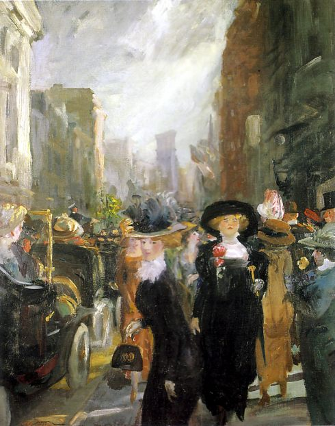 fifth Avenue New York